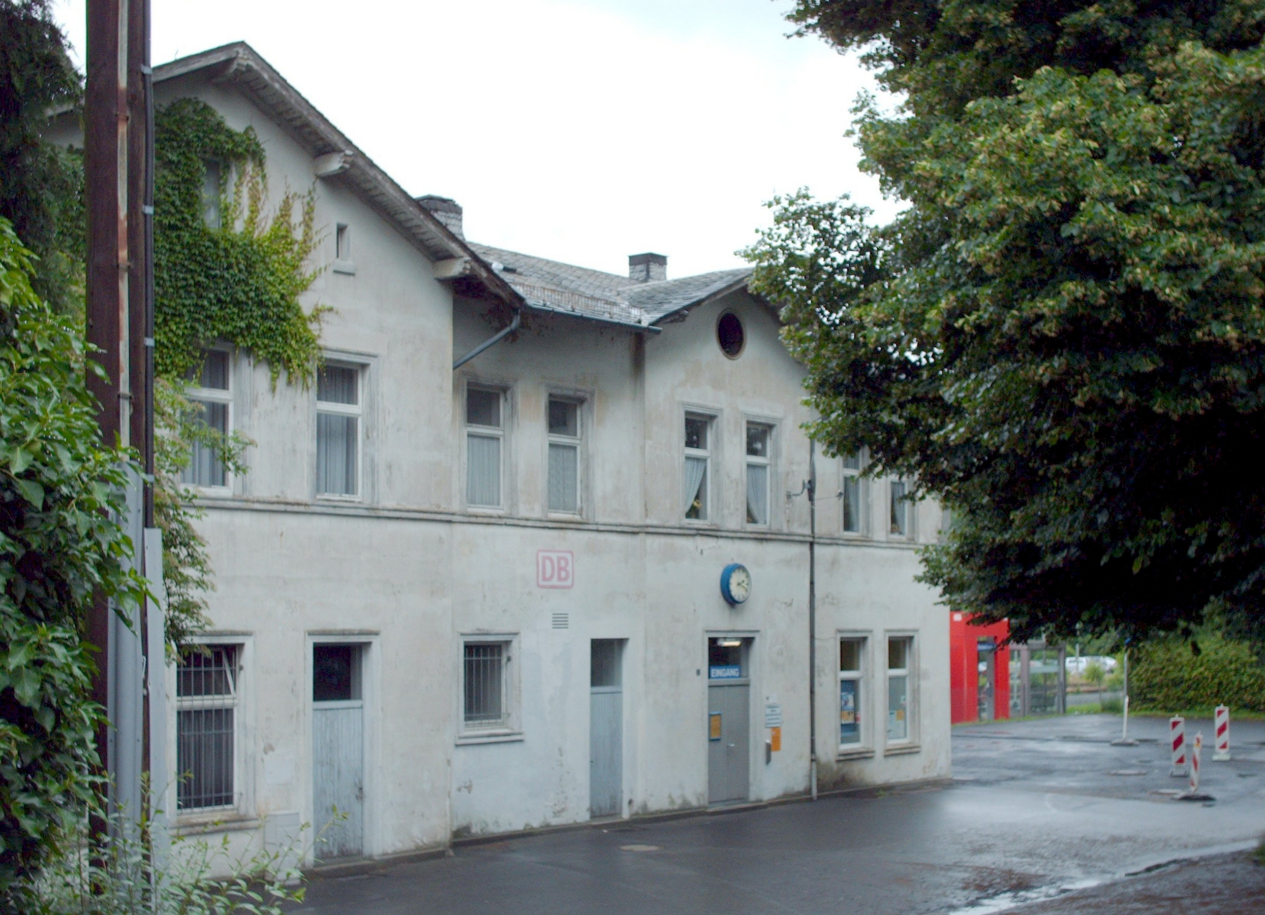 Burbach station, Burbach, Germany check usage